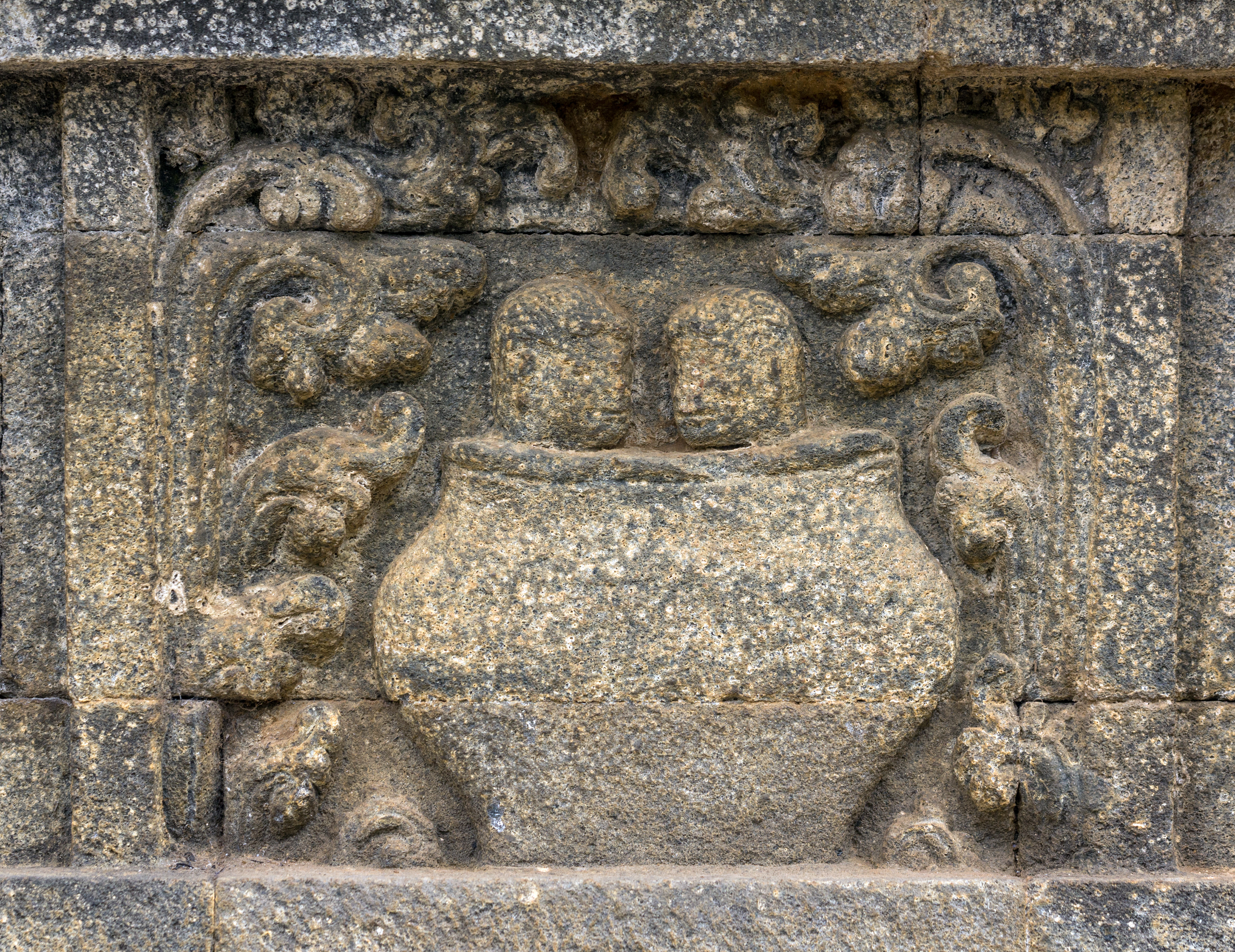 Rimbi temple relief (water vessel), Jombang, 2017-09-19